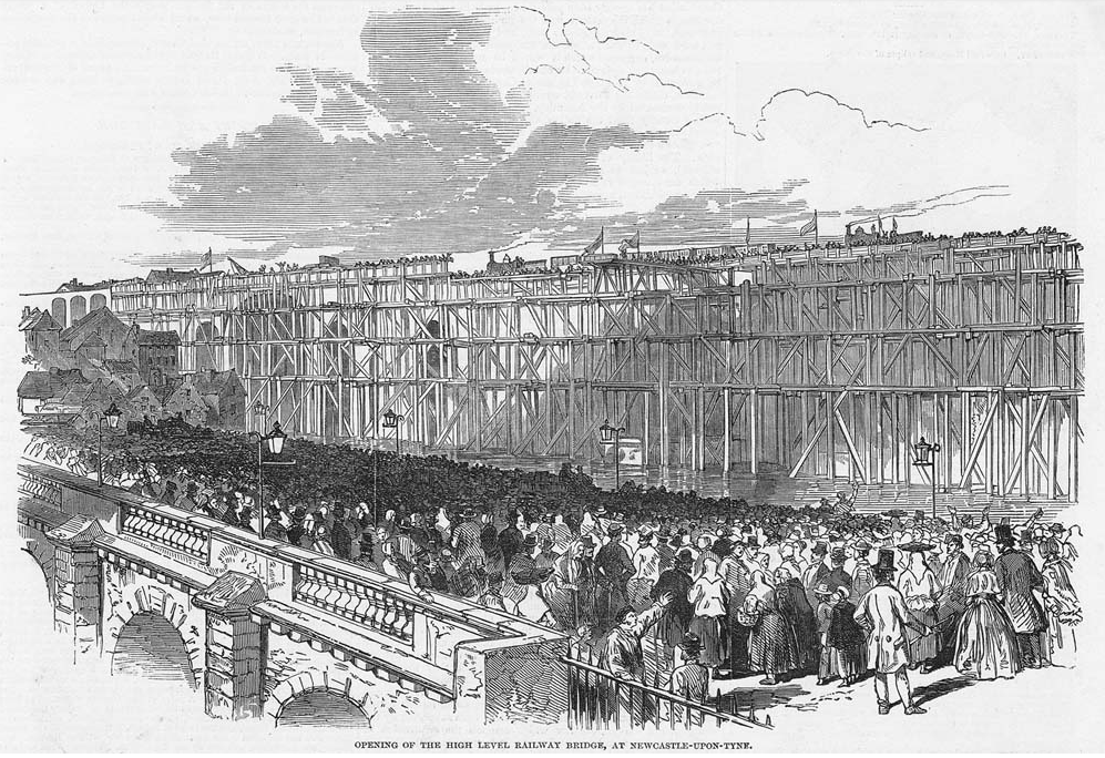 Engraving of the inauguration of the High Level Bridge, Newcastle, England by HMN QUeen Victoria on 28 September 1849. It was made by a contracted engraver for the Illustrated London News and published in that periodical